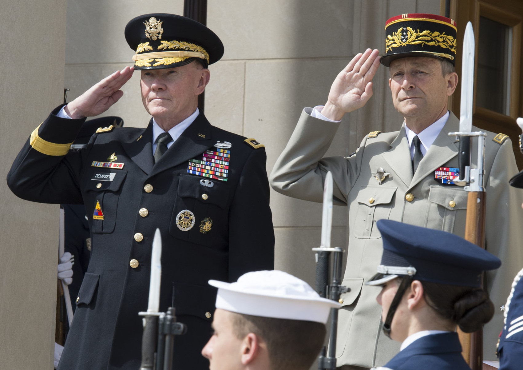 General Martin Dempsey, Chief of Staff of the United States Armed Forces, and General Pierre de Villiers, Chief of Staff of the French Armed Forces, on 23 April 2014 in Arlington.